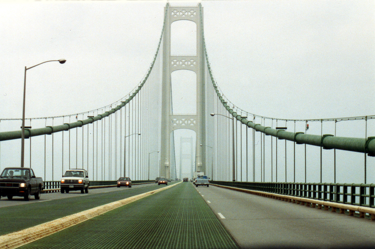 Mackinac Bridge suspension section in the fog. Date: July 5, 1996